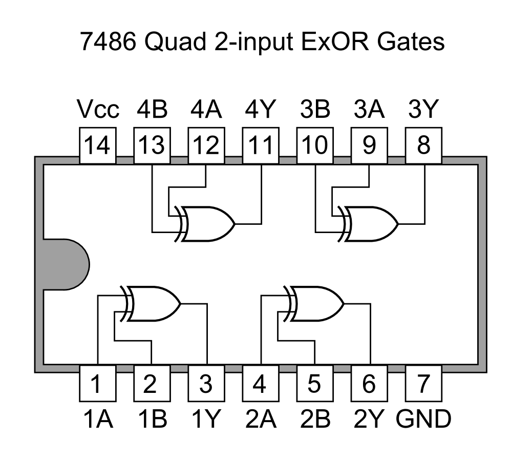 TTL pin asignment of 7486 Quad 2-input ExOR Gates